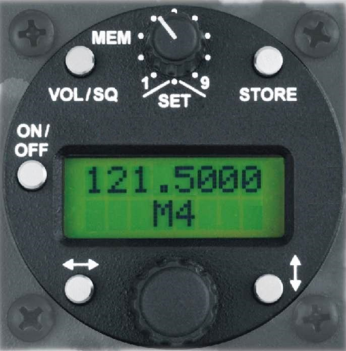 Transmitter receiver radio station tuned to an aeronautical band (118 to 137 MHz)